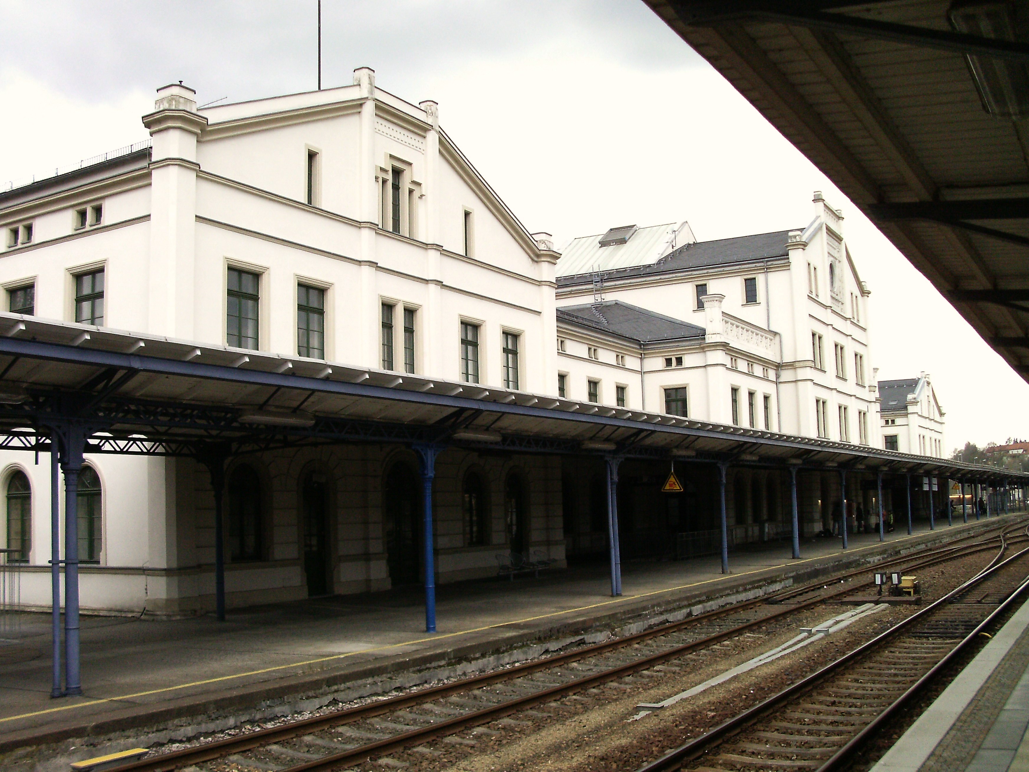 Zittau railway station (Görlitz district, Saxony)